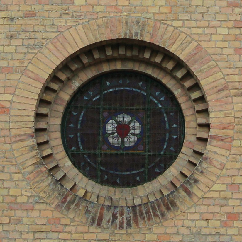 Rosette of Lutheran church in Rákoskeresztúr